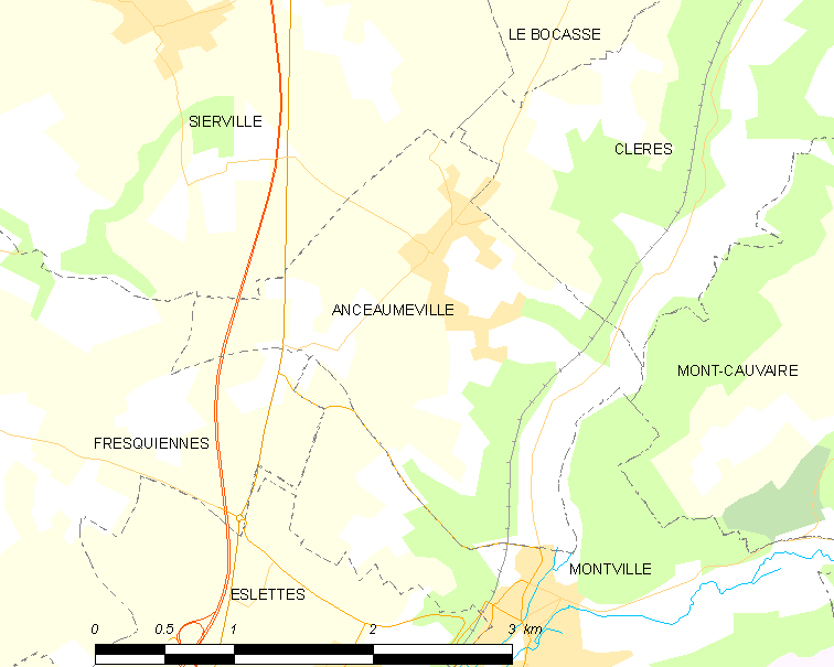 Map of French municipality Anceaumeville